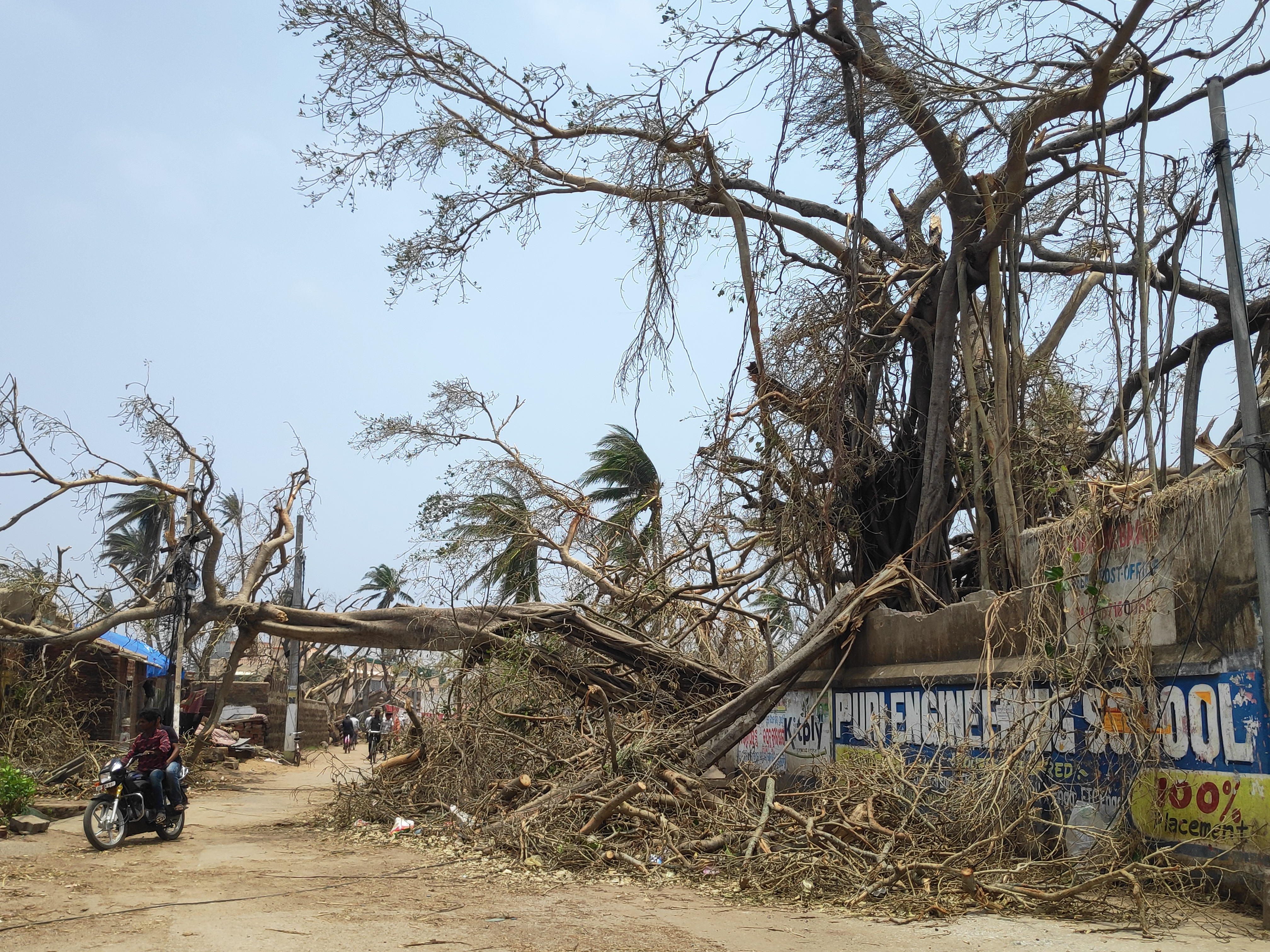 Uprooted Trees due to Cyclone Fani near Narendra Puskarini, Puri.